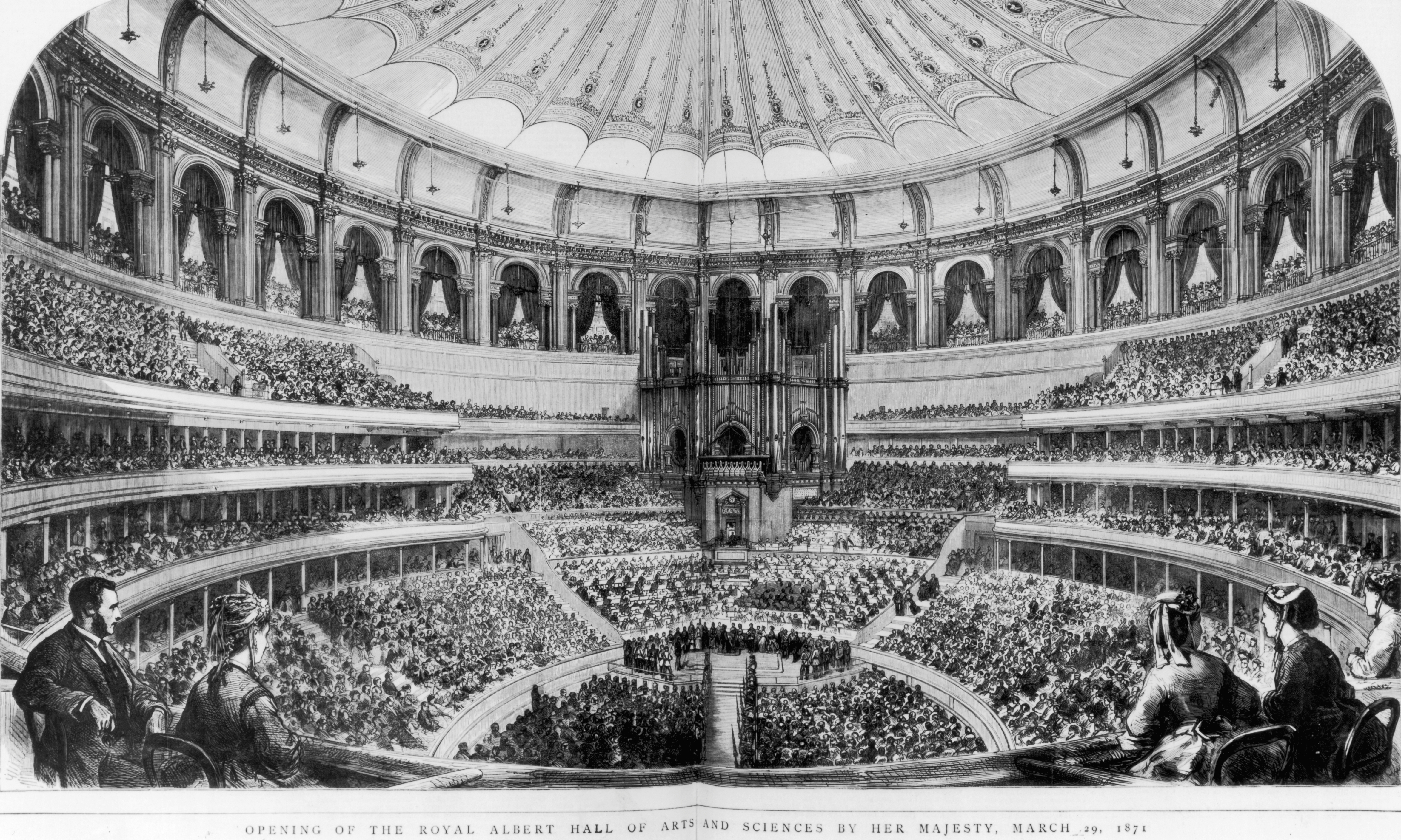 The grand opening of the Royal Albert Hall in London by Queen Victoria on 29 March 1871 as illustrated in The Graphic, an illustrated newspaper of the time.